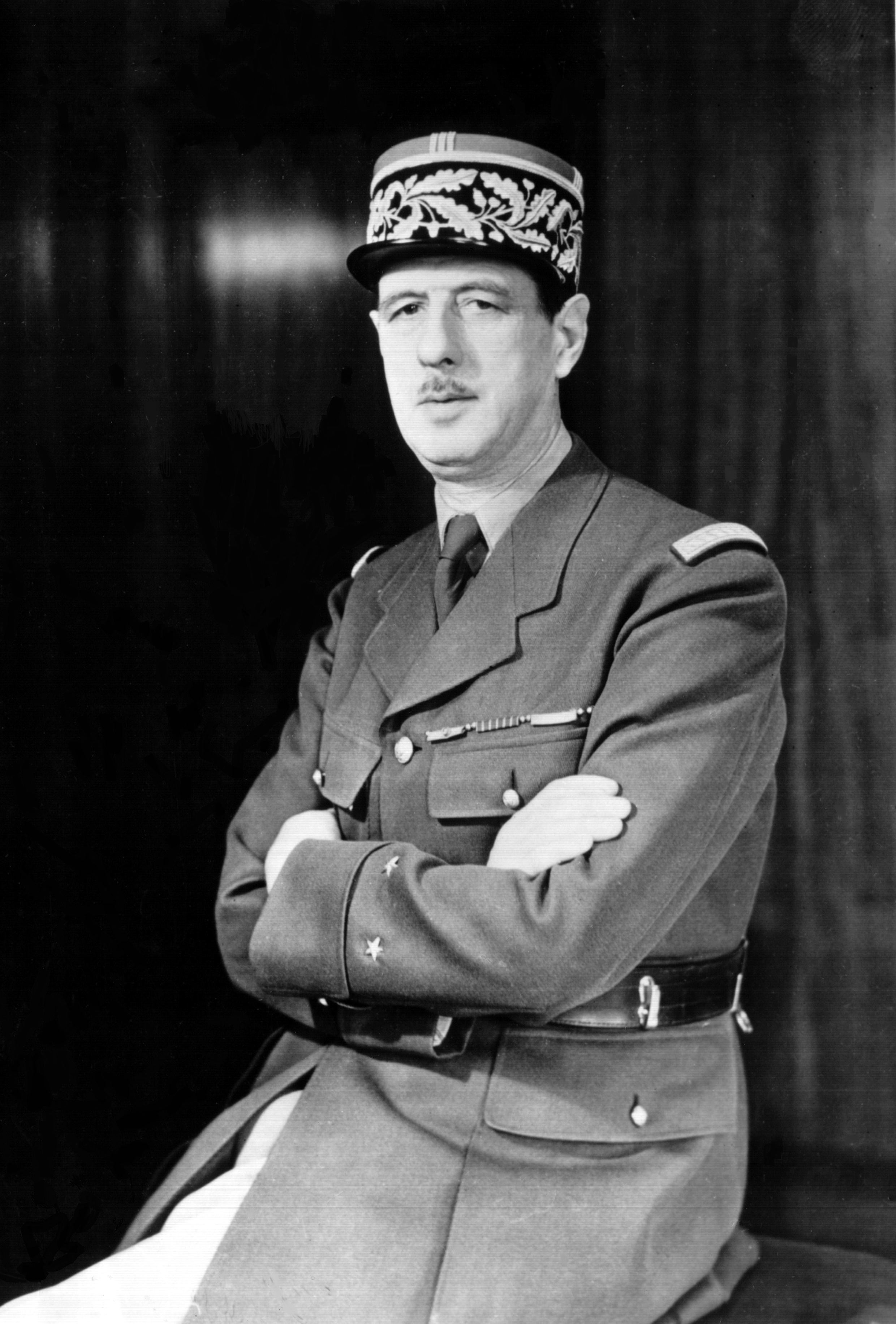 WWII French General Charles De Gaulle A WWII photo portrait of General Charles de Gaulle of the Free French Forces and first president of the Fifth Republic serving from 1959 to 1969.